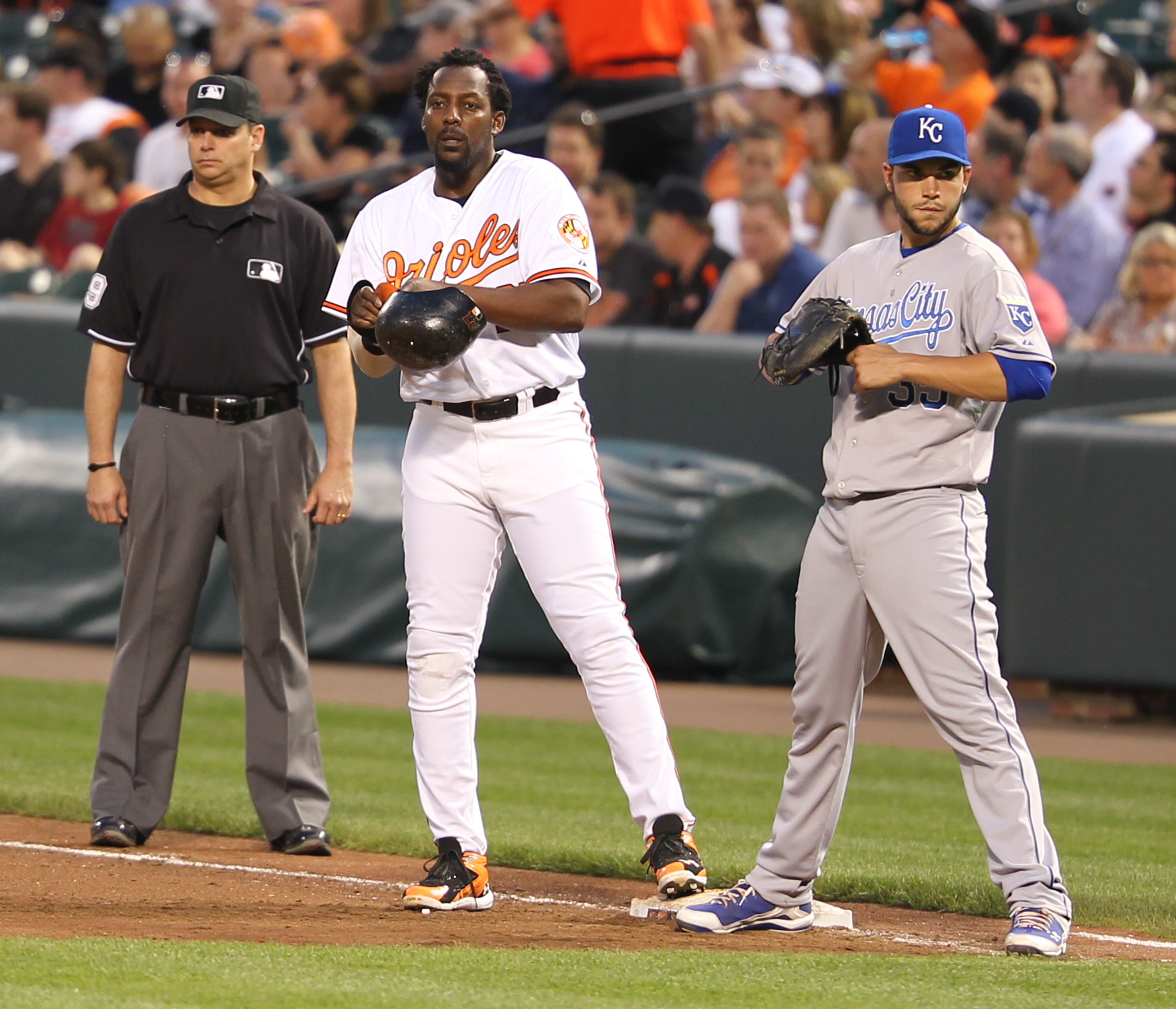 Kansas City Royals at Baltimore Orioles May 24, 2011